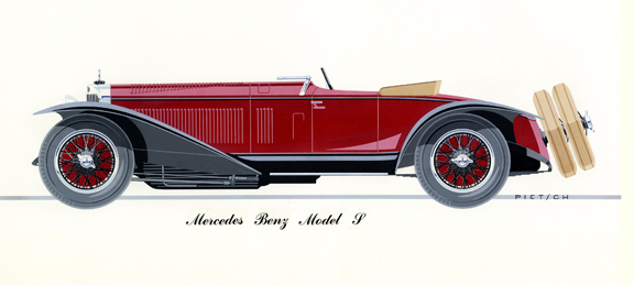 The original drawing has been donated to the Museum of Fine Arts, Boston, but the image posted here was made by me, T. W. Pietsch III. Please see the correspondence below from Jennifer C. Riley, Head of Image Licensing and Digital Archives Museum of Fine Arts, Boston. You may tell them that while the Museum of Fine Arts, Boston owns the artwork; we do not retain the copyright to Theodore Wells Pietsch II’s images. Best, Jennifer Jennifer Riley Head of Image Licensing and Digital Archives Museum of Fine Arts, Boston | 617-369-3777 Dear Mr. Pietsch, Regarding copyright, you retain copyright to any photos you took of the drawings made by your father. The copyright to the artworks and photographs does not revert to the Museum automatically upon donation of the works. The copyright to the photographs that you took stays with you so you have every right to upload those photos to Wikipedia. I am happy to provide you with language necessary for you to pass on to Wikipedia so you can reload the images. Since the Museum does not, in fact, hold the copyright to those photos, we cannot upload them. Best, Jennifer Jennifer Riley Head of Image Licensing and Digital Archives Museum of Fine Arts, Boston | 617-369-3777